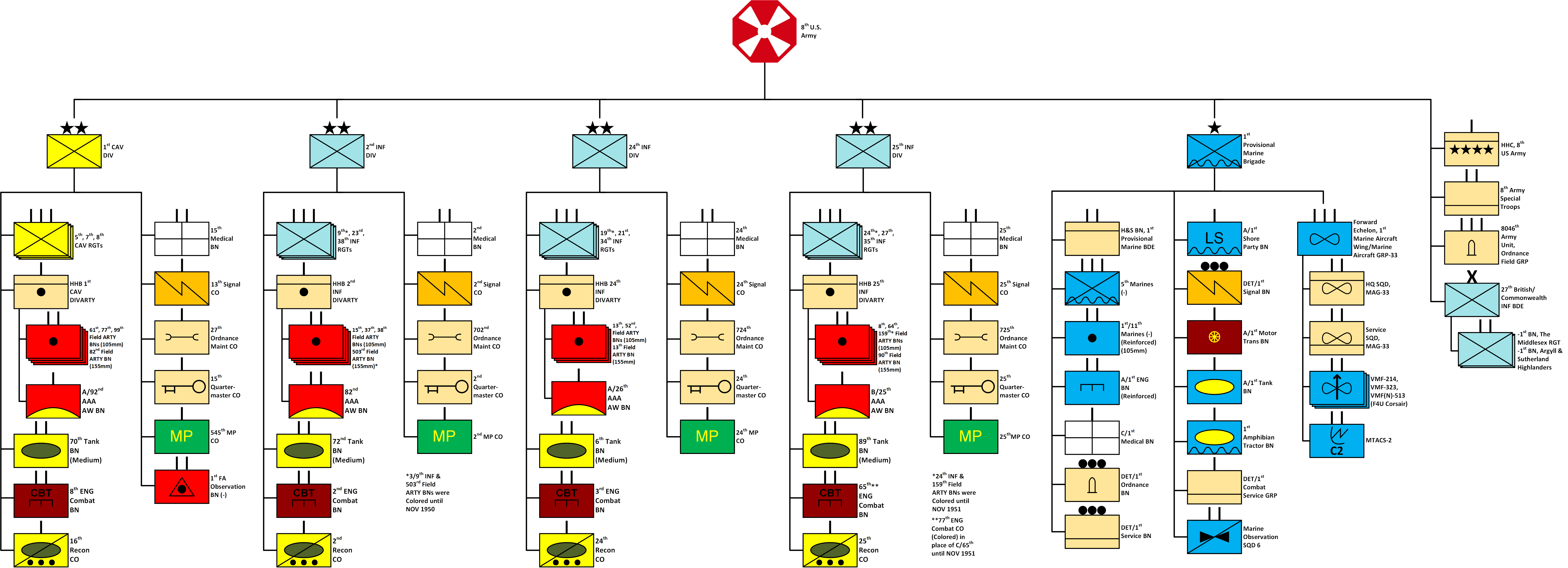 Order of battle of the 8th U.S Army during the Battle of the Pusan Perimeter as of 1 SEP 1950